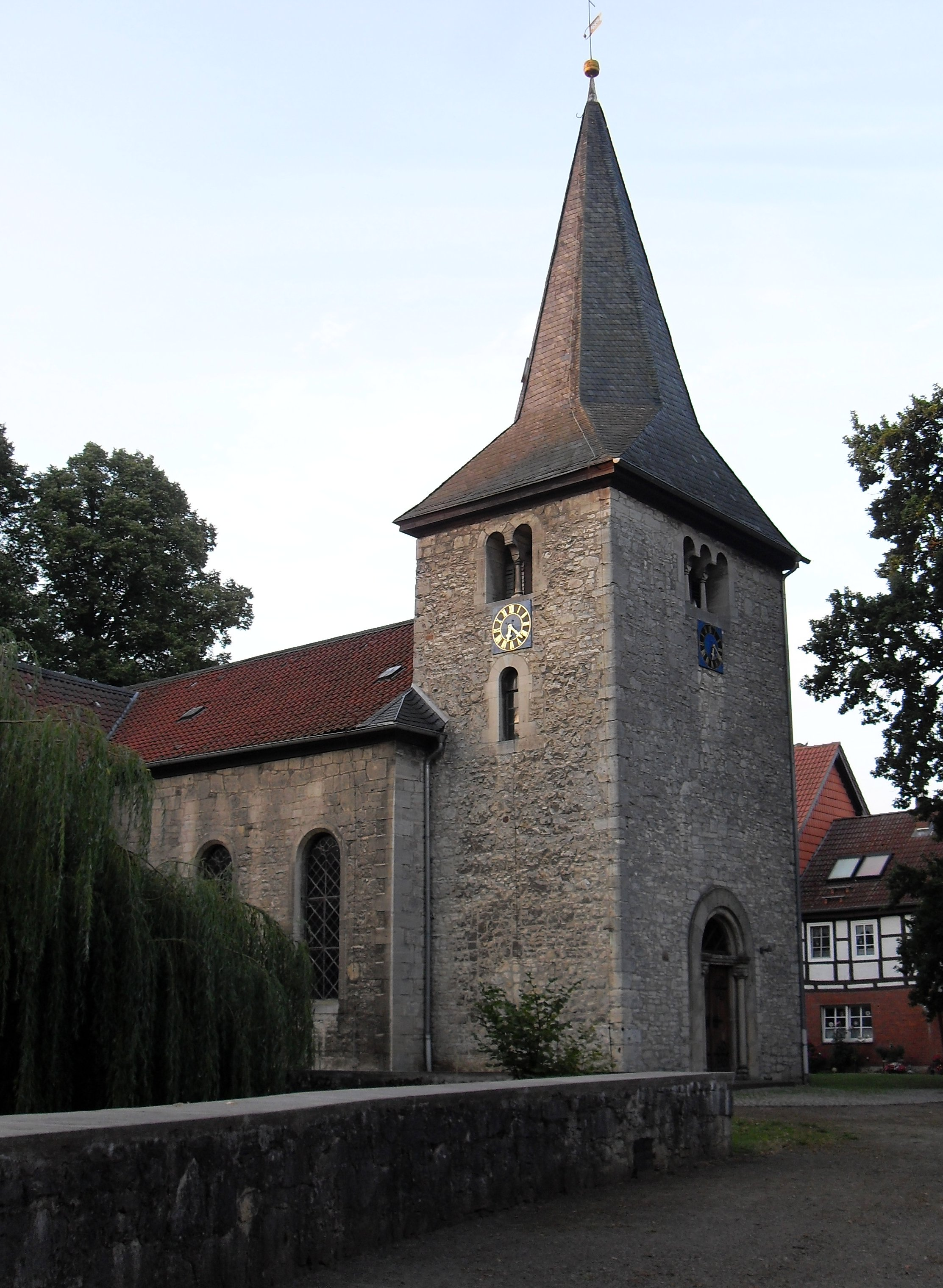 church in the village Veltheim (Ohe), Lower Saxony, Germany